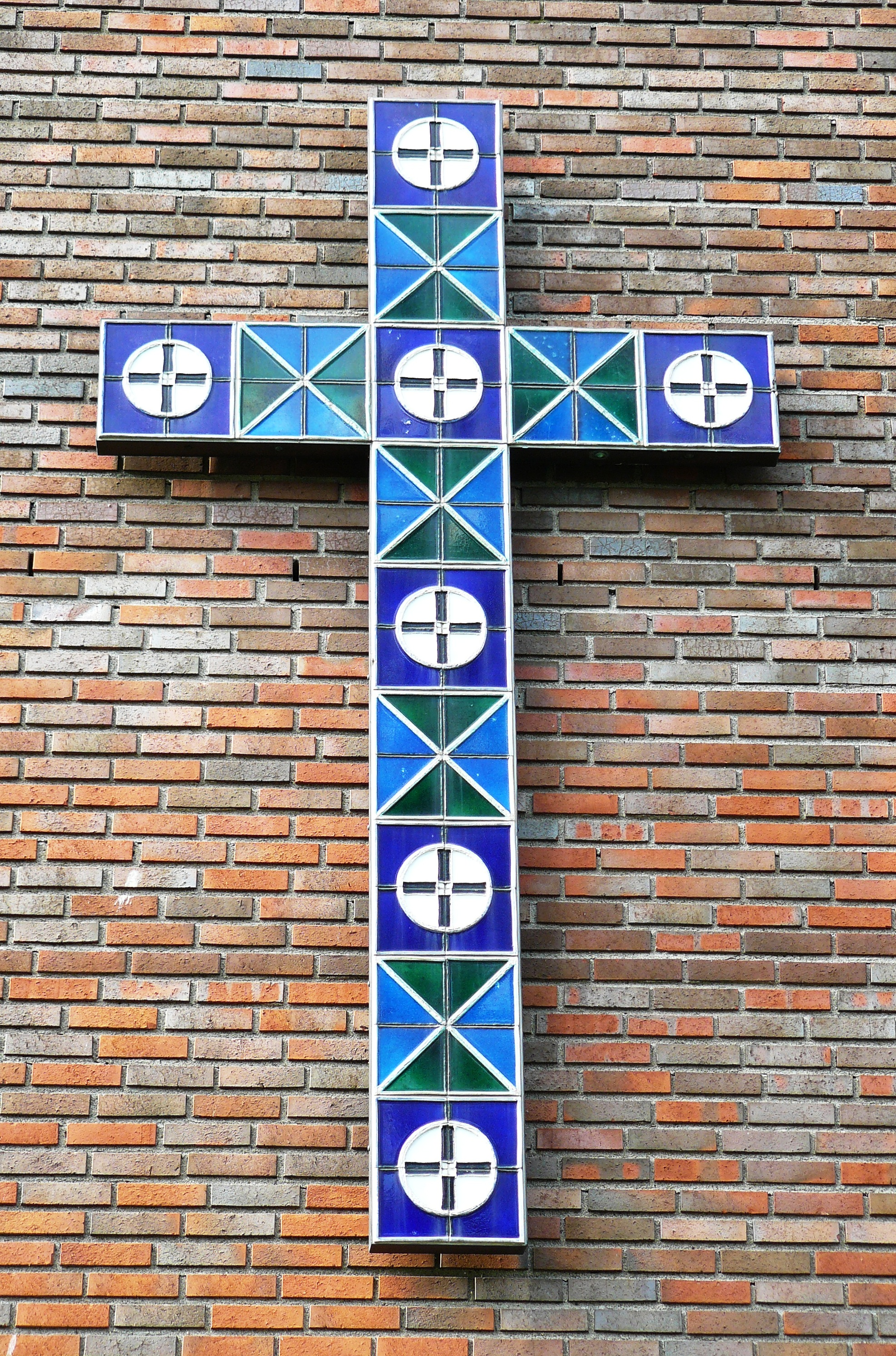 Rødtvet church, Oslo - tile cross on wall